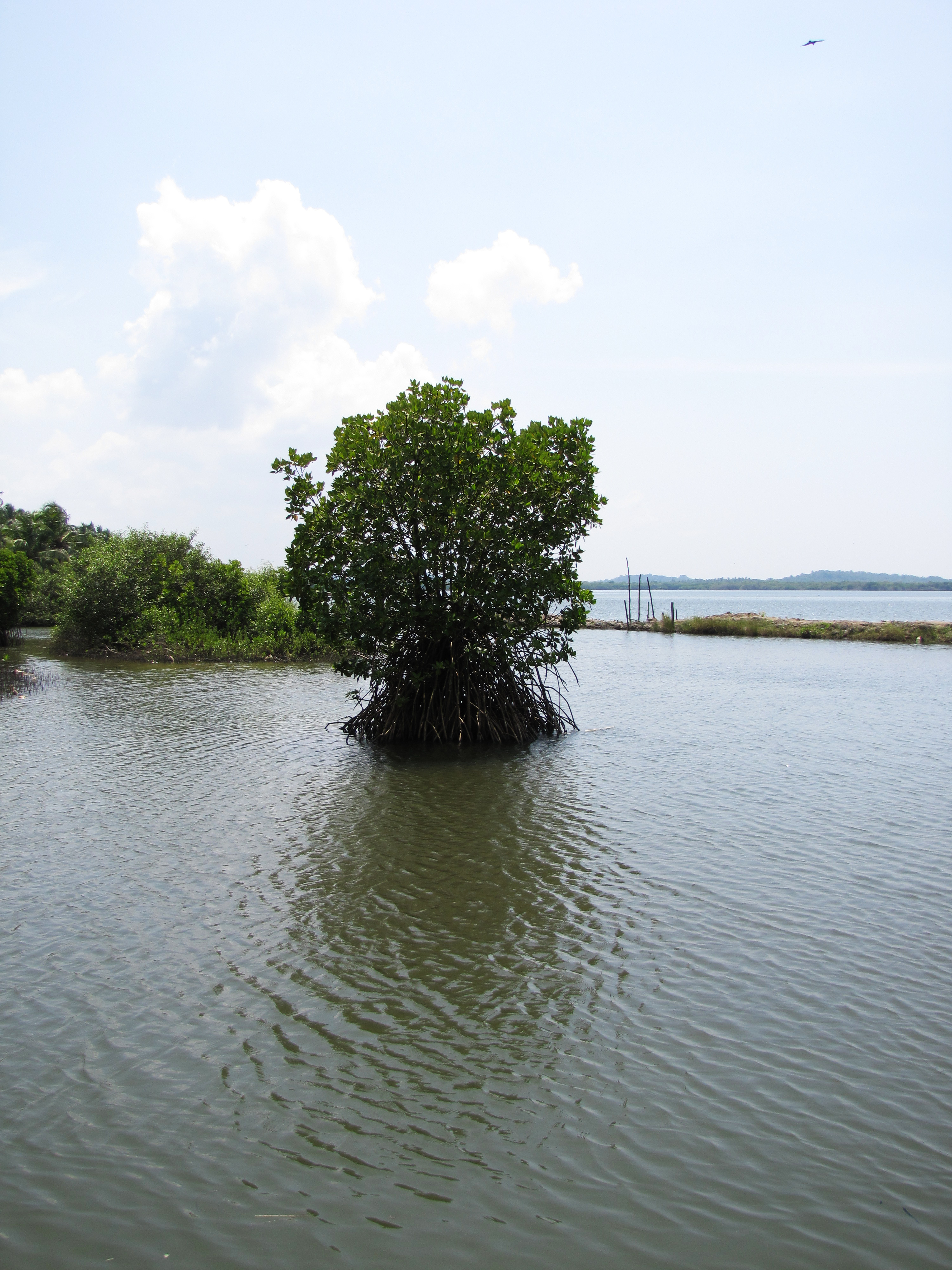 Mangrove in Ezhome Moola